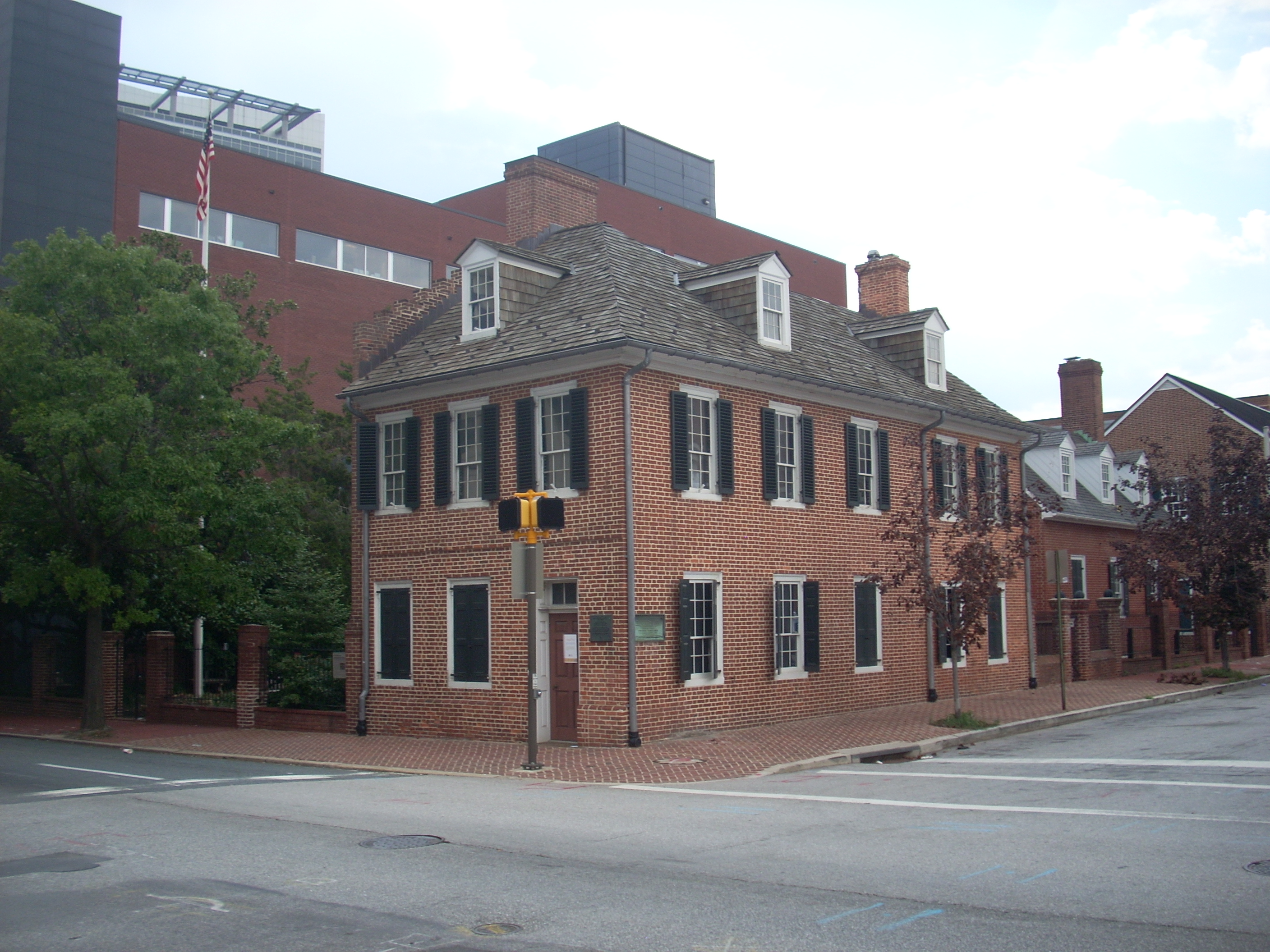 Flag House, 844 East Pratt Street, Baltimore, Maryland. Object location39° 17′ 15″ N, 76° 36′ 13″ W